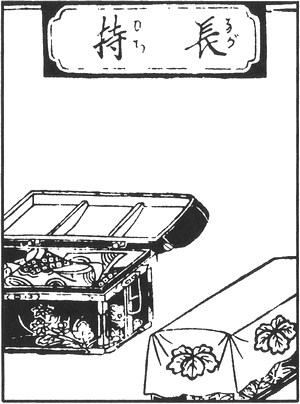 Nagamochi (長持, long chest for kimono storage) from the Joyō-Kinmō-zui(女用訓蒙図彙)